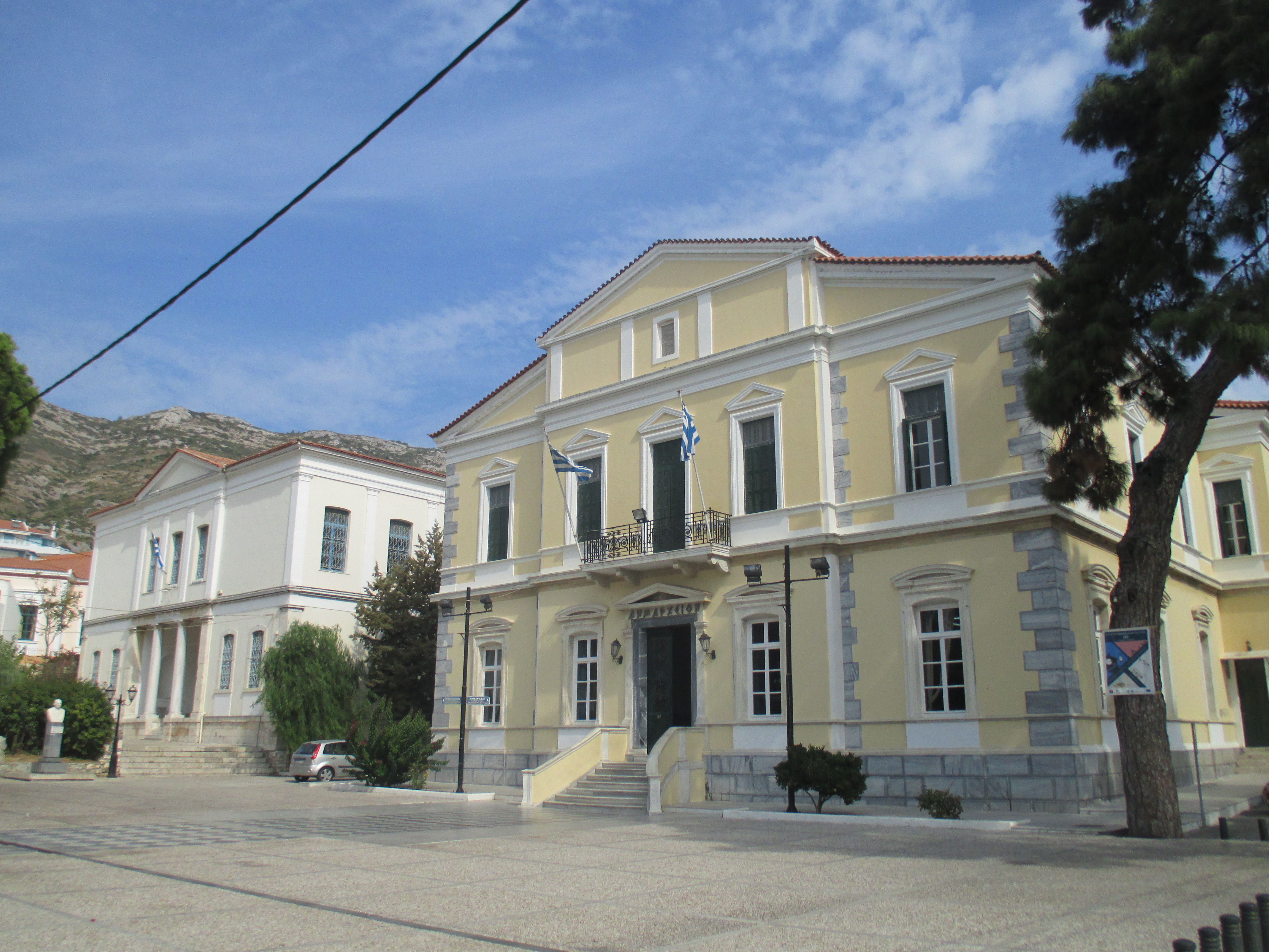 Samos town, Samos, Greece. Old building of the Archaeological Museum of Samos (left) and municipal building (i.e. "town hall") of the municipality of Samos (right).